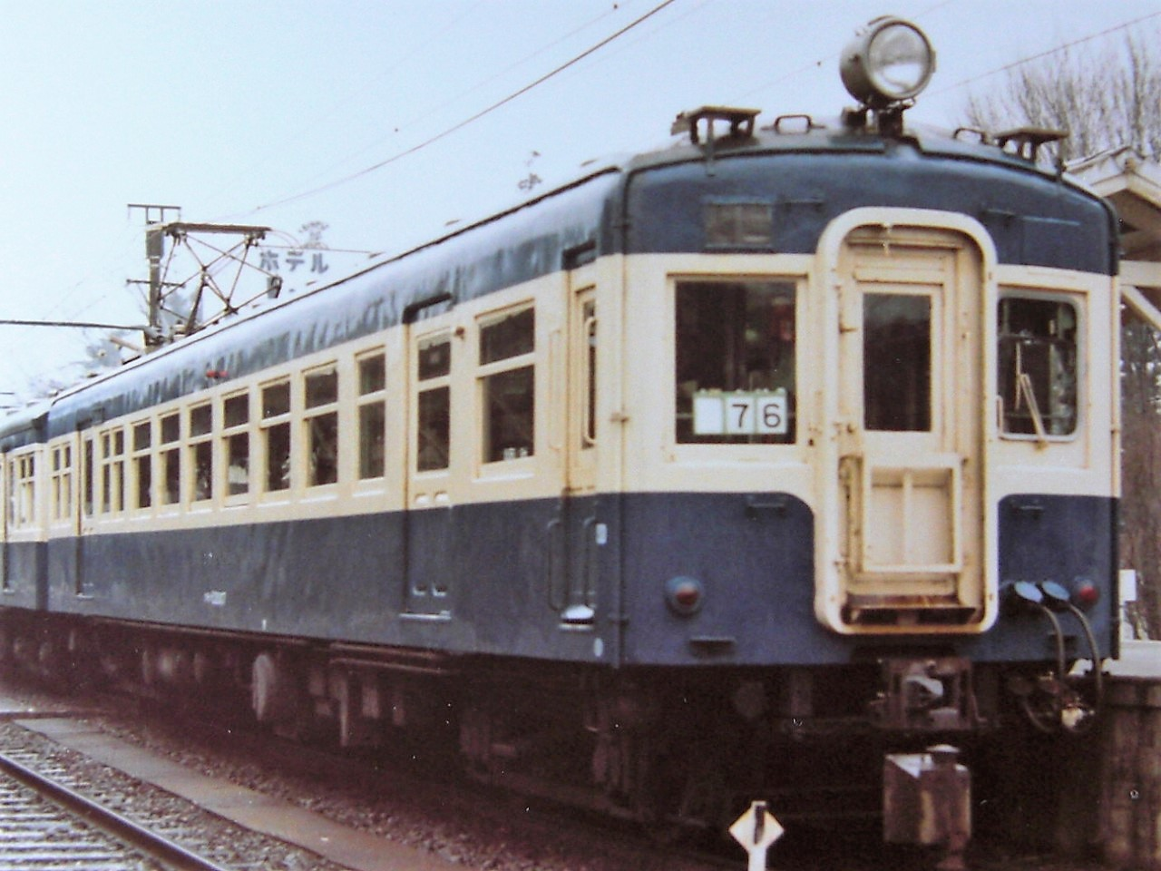 JNR EMU car KuMoHa 53007